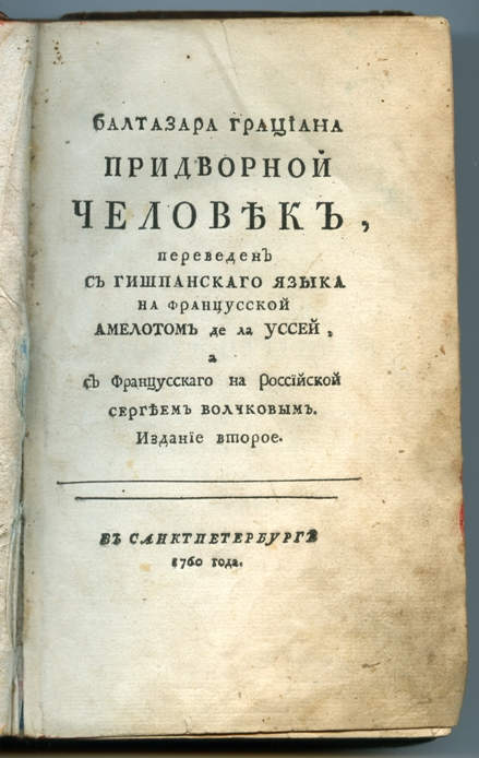 Cover of the book of B.Grasian translated by S.S.Volchkov